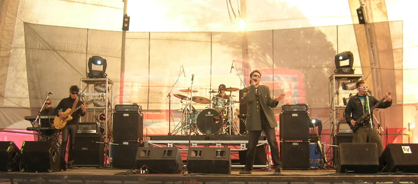 Richter live at Pepsi Music Festival 2007, Buenos Aires